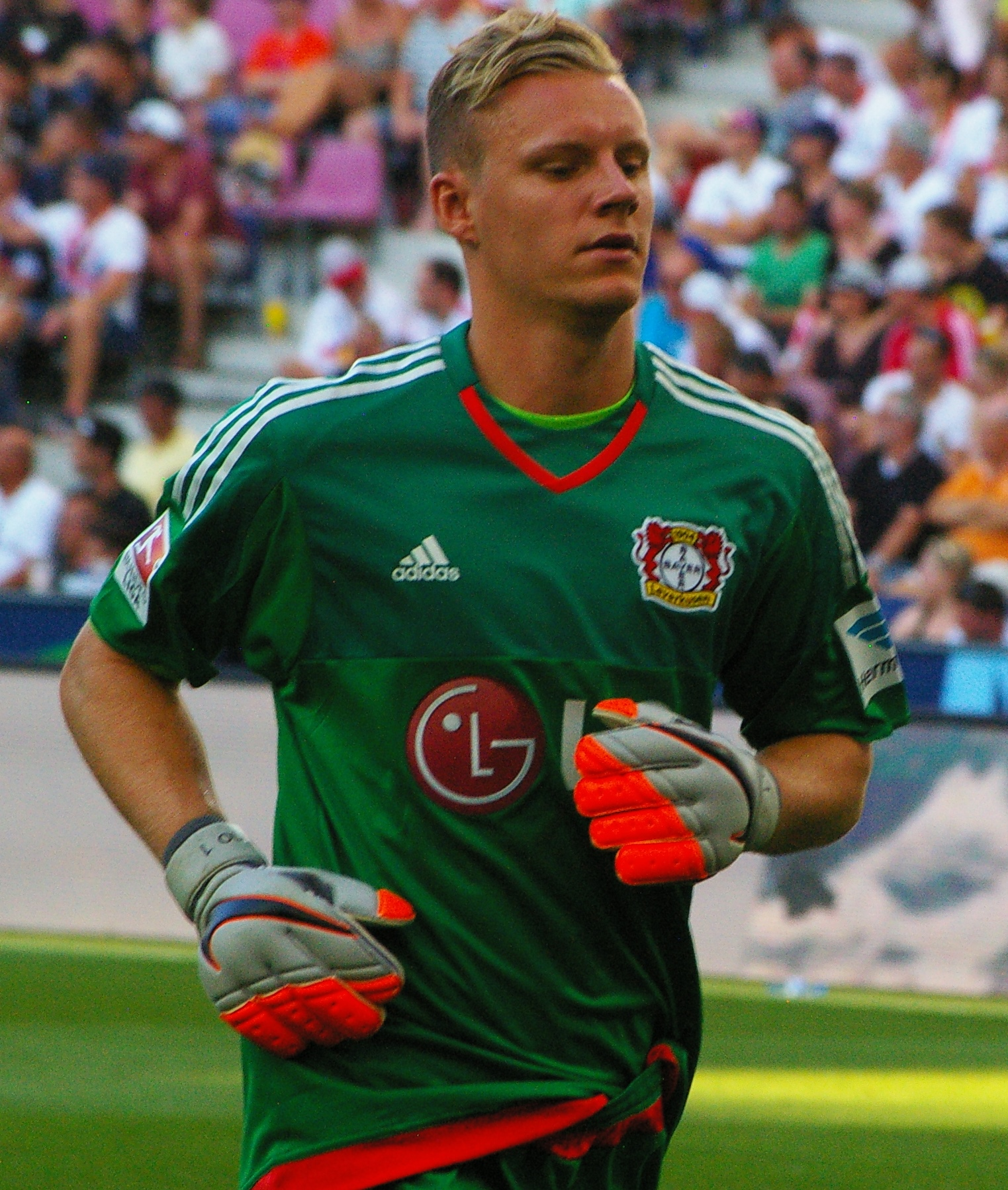 friendly match preseason 2015/16